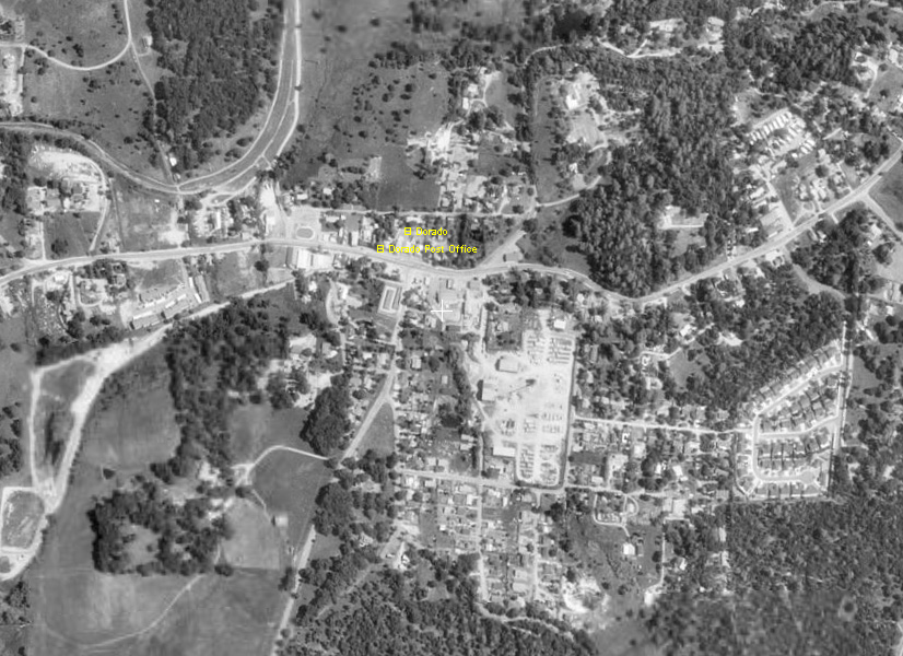 Map of El Dorado